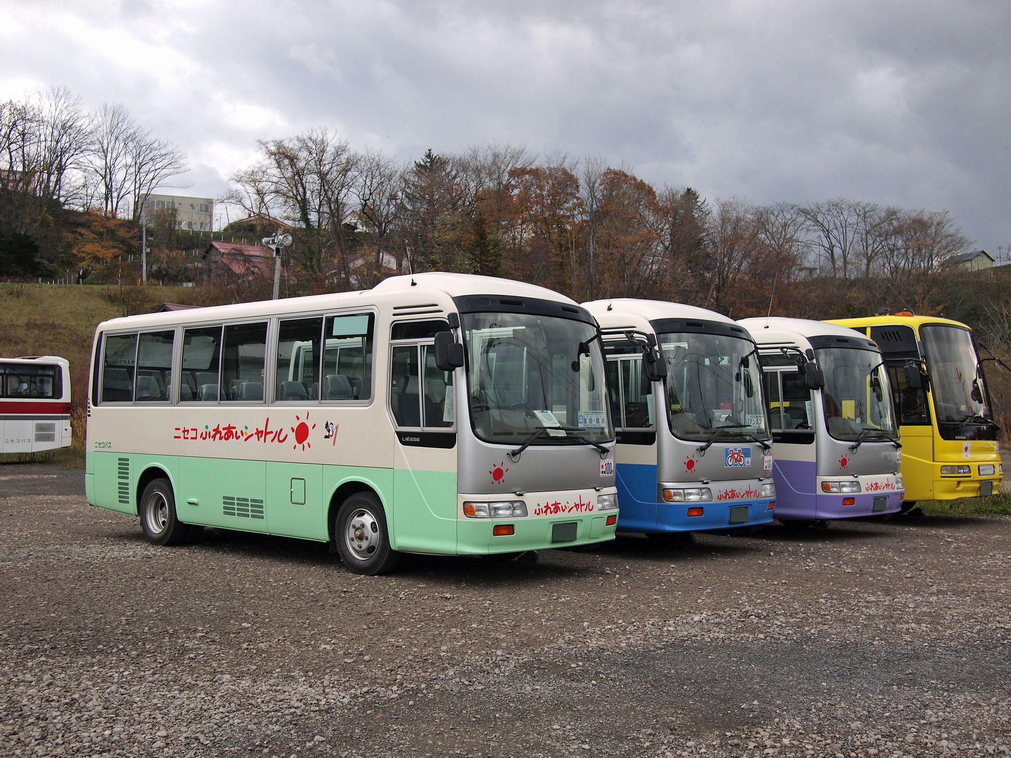 Niseko Fureai Shuttle, Niseko, Hokkaido, Japan